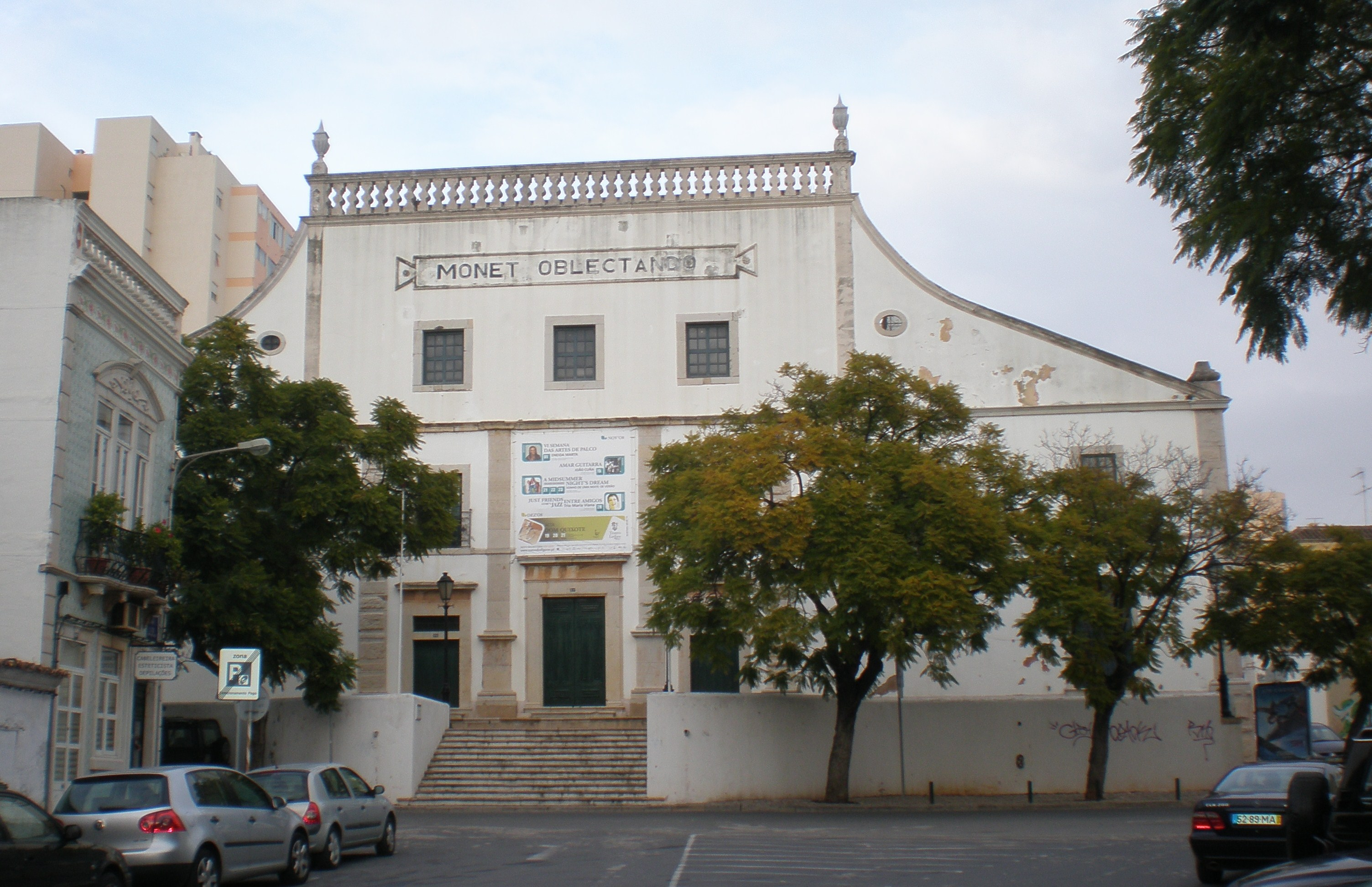 Lethes Teatre, Faro, Portugal